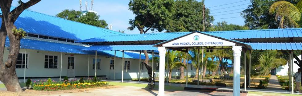 Campus of Army Medical College Chittagong